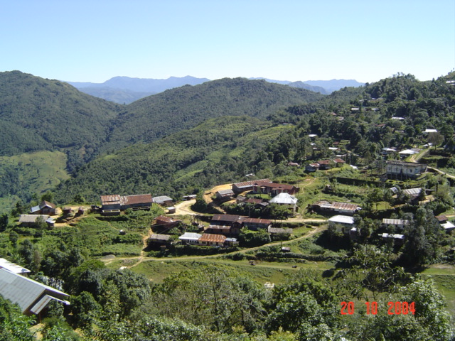 Author: Bankim Chingsubam Phtograph taken by author. Bird's eye view of a village in Ukhrul district of Manipur state of India.